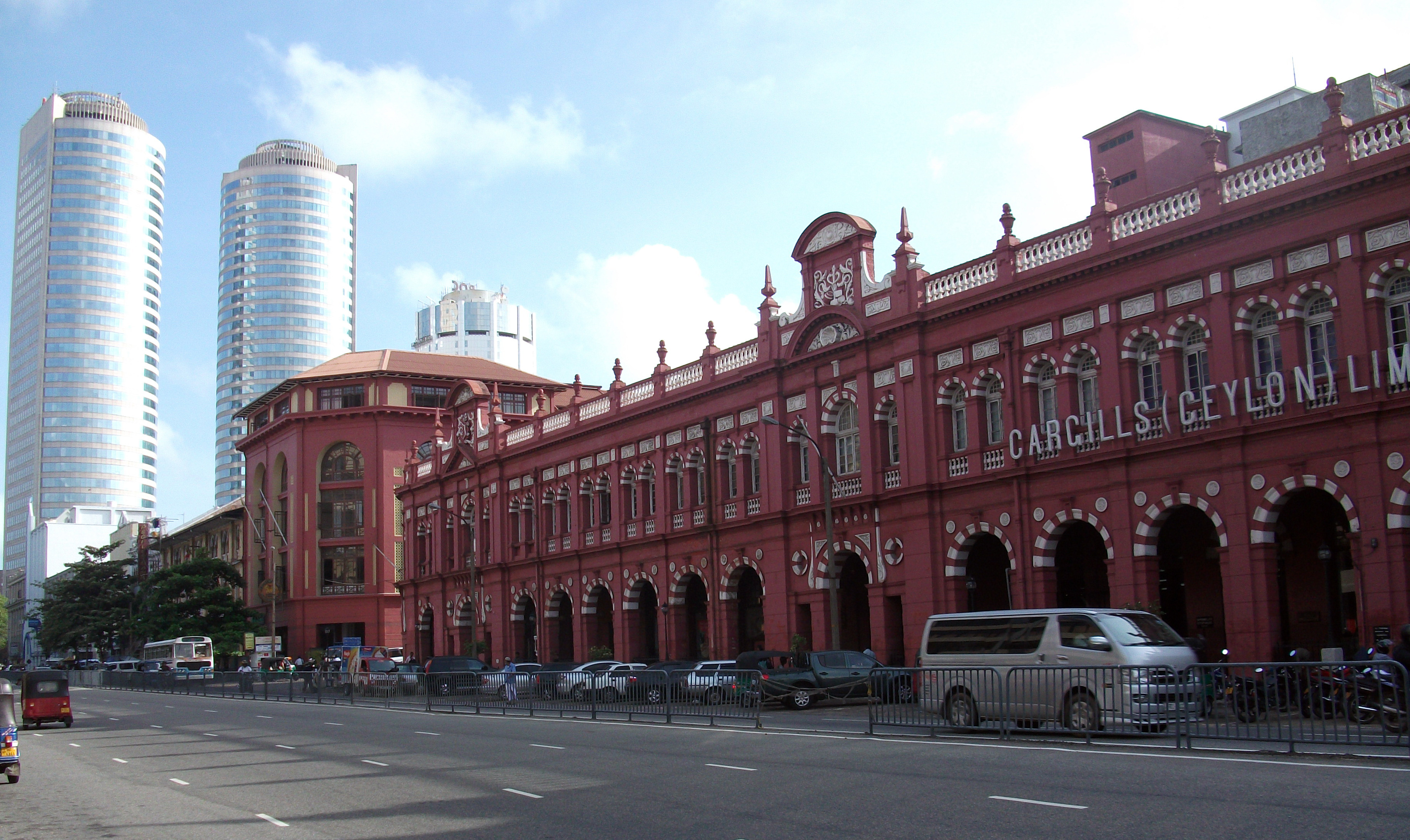 a view of central Colombo, you can see the world trade center on the picture